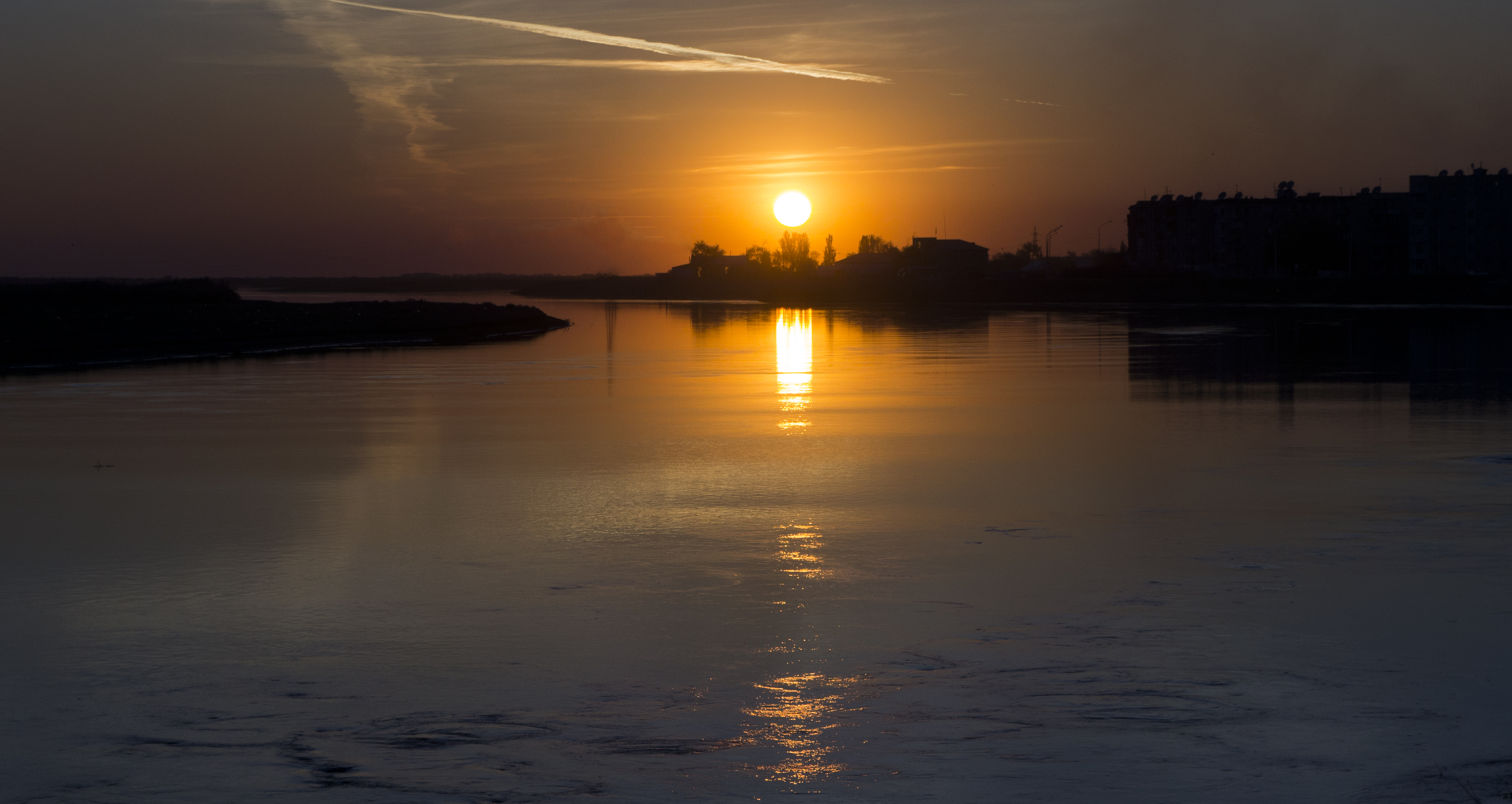 Sunset over Sir-Darya river, Kazakhstan. In Ancient Greek river is called Yaxartes (Ἰαξάρτης).